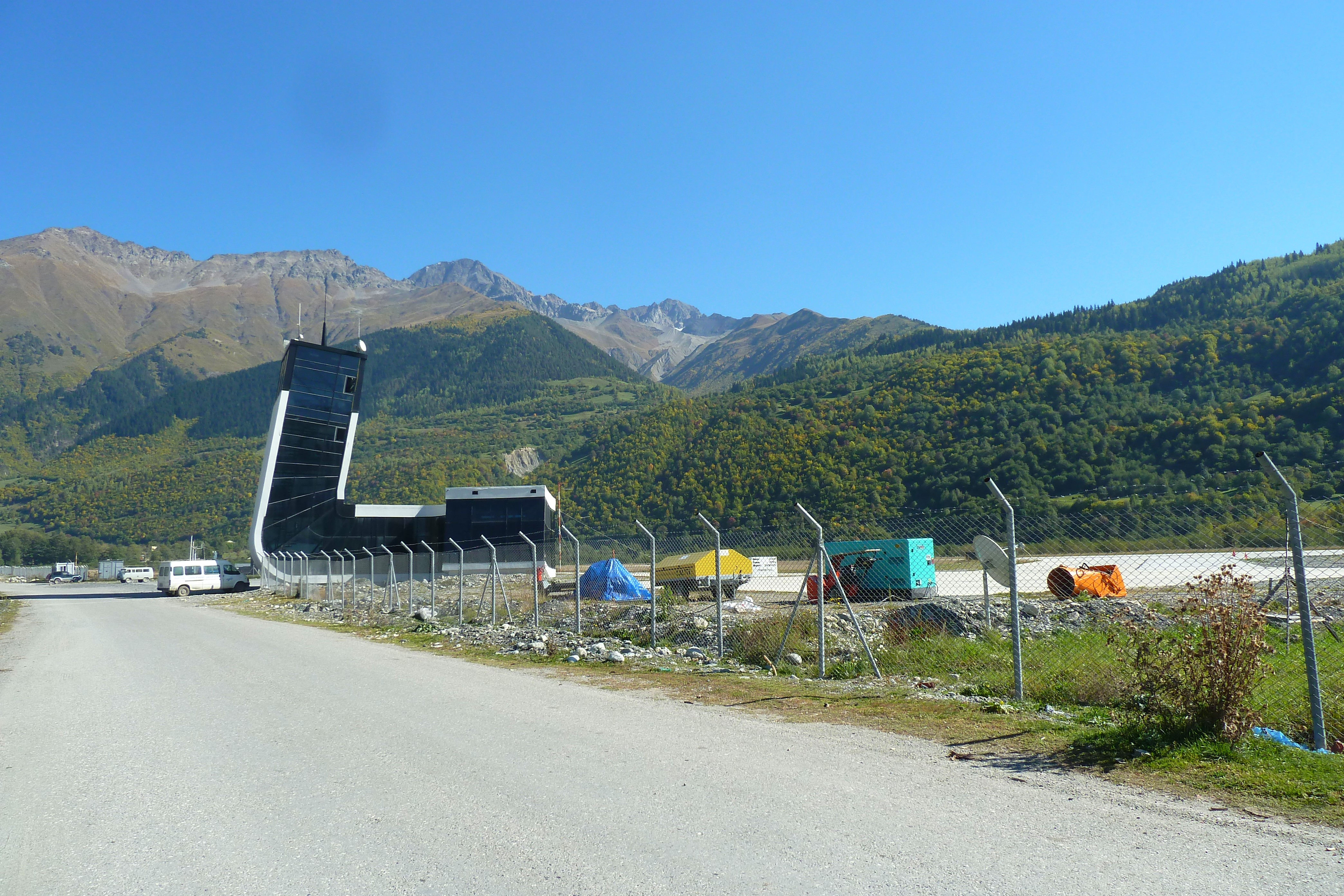 Queen Tamar Airport in Mestia, Republic of Georgia